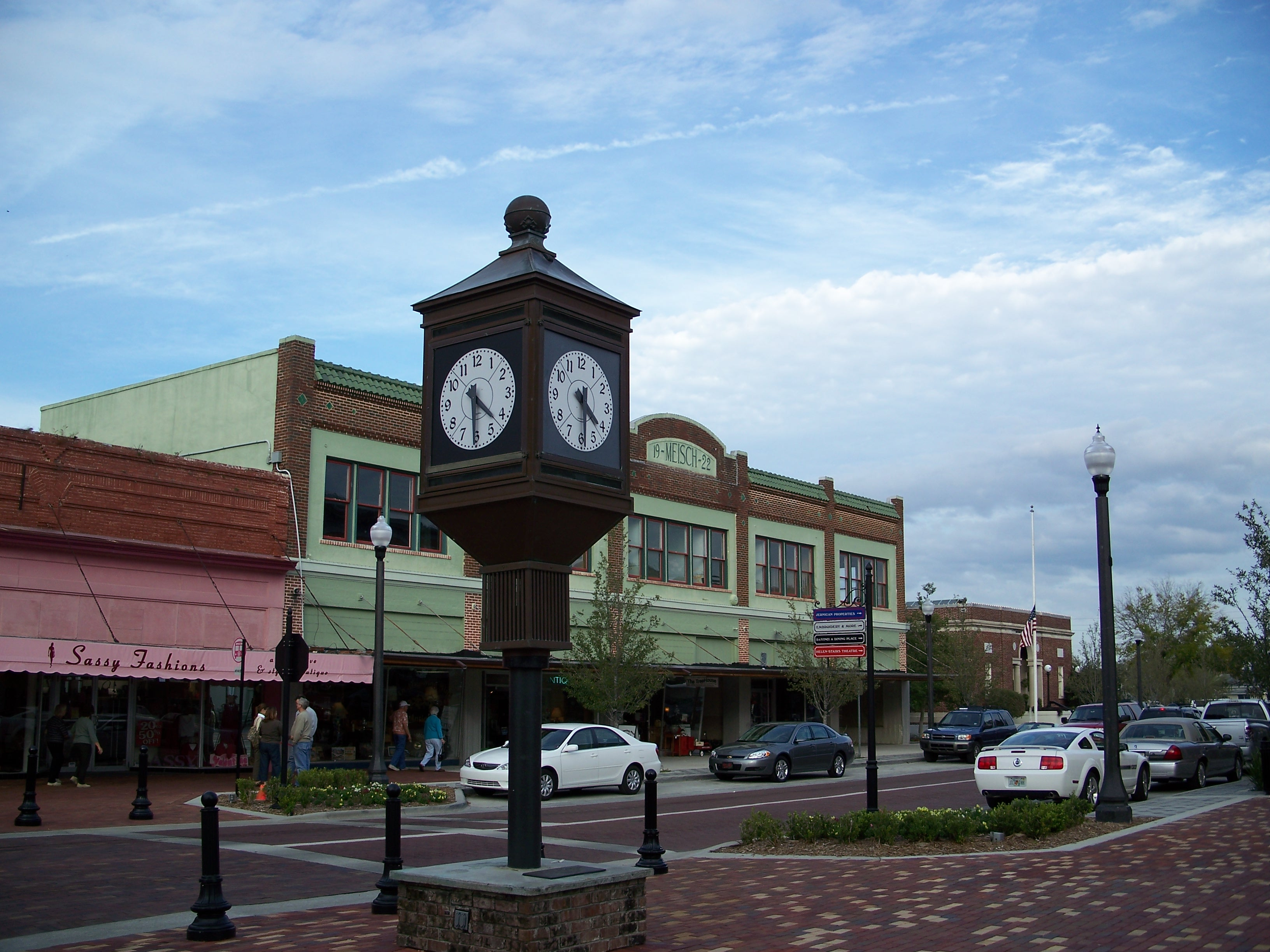 Sanford, Florida: Sanford Commercial District: Street clock